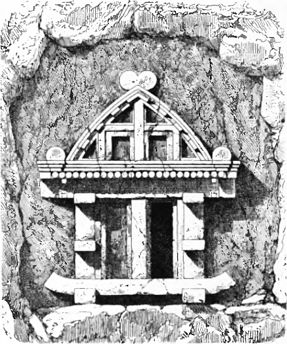 Facade of Rock Tomb in Myra